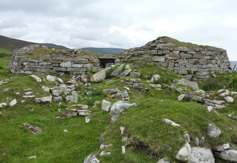 Cinn Trolla Broch, Sutherland, Scotland